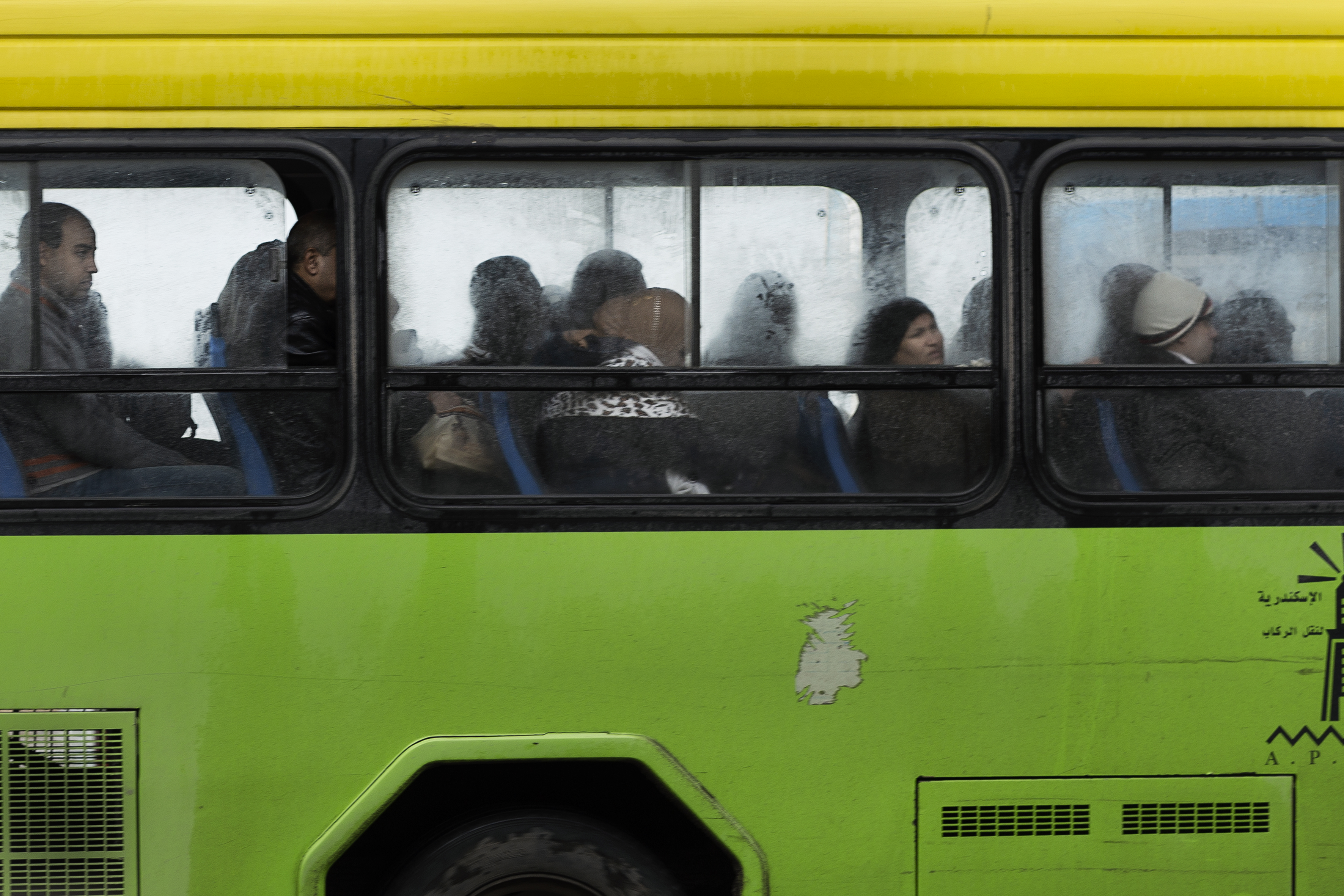 Public bus in Alexandria during hard rainy day holding a lot of thoughts of the riders This is an image with the theme "Africa on the Move or Transport" from: Egypt